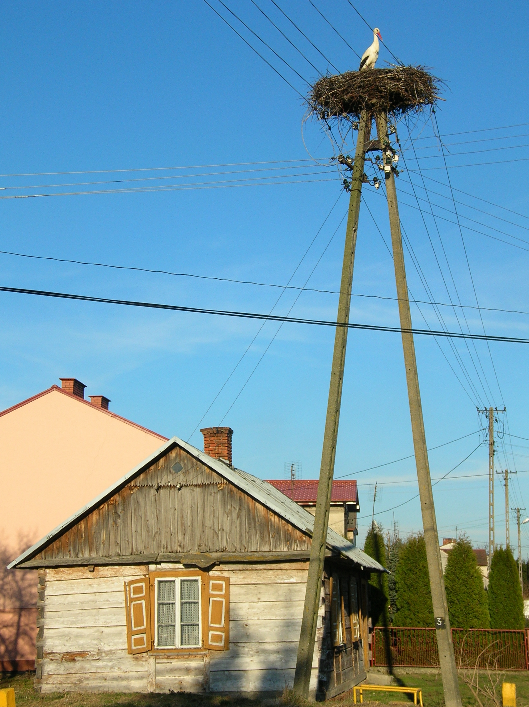 Old wooden cottage in Skowieszyn